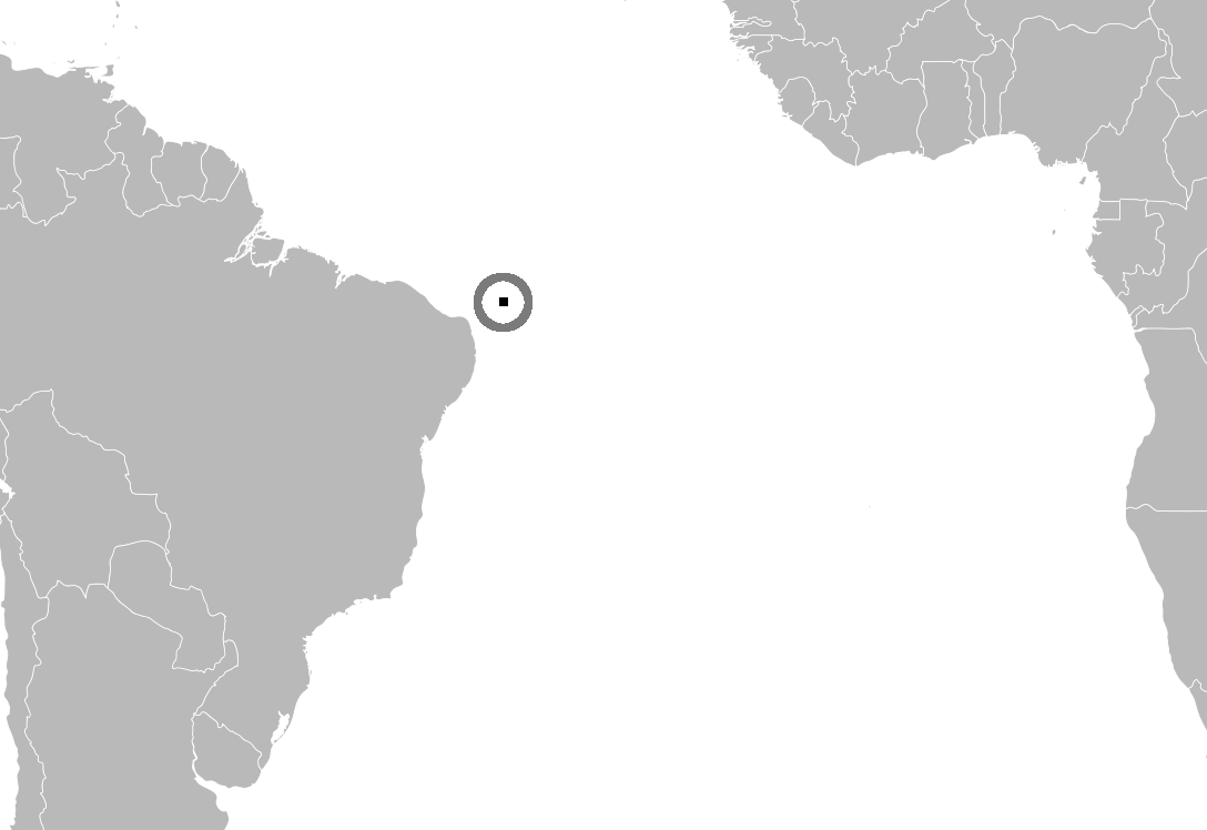 Map showing the location of Fernando de Noronha in the Atlantic.